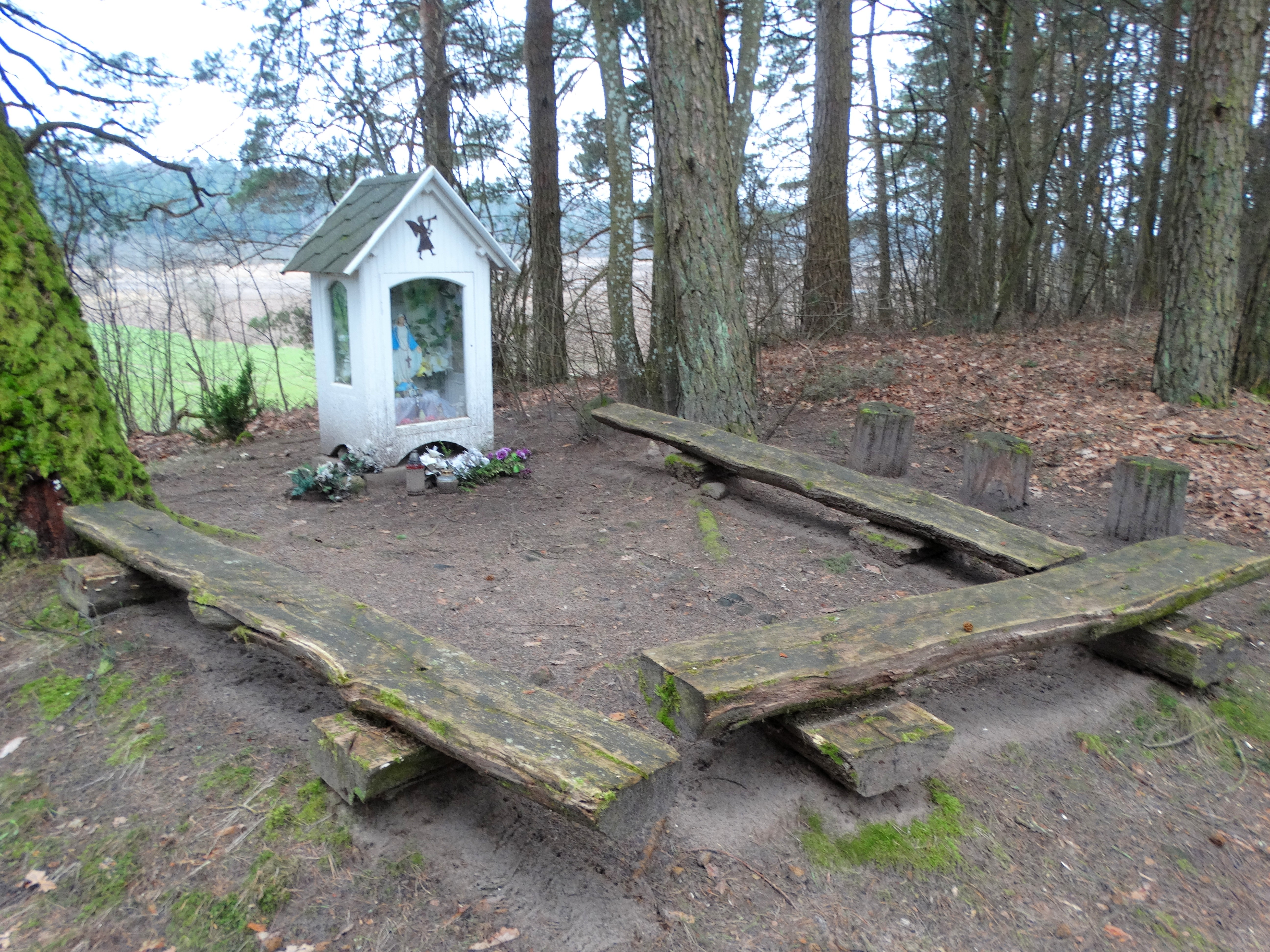 Old cemetery, Raguviškiai, Kretinga District, Lithuania